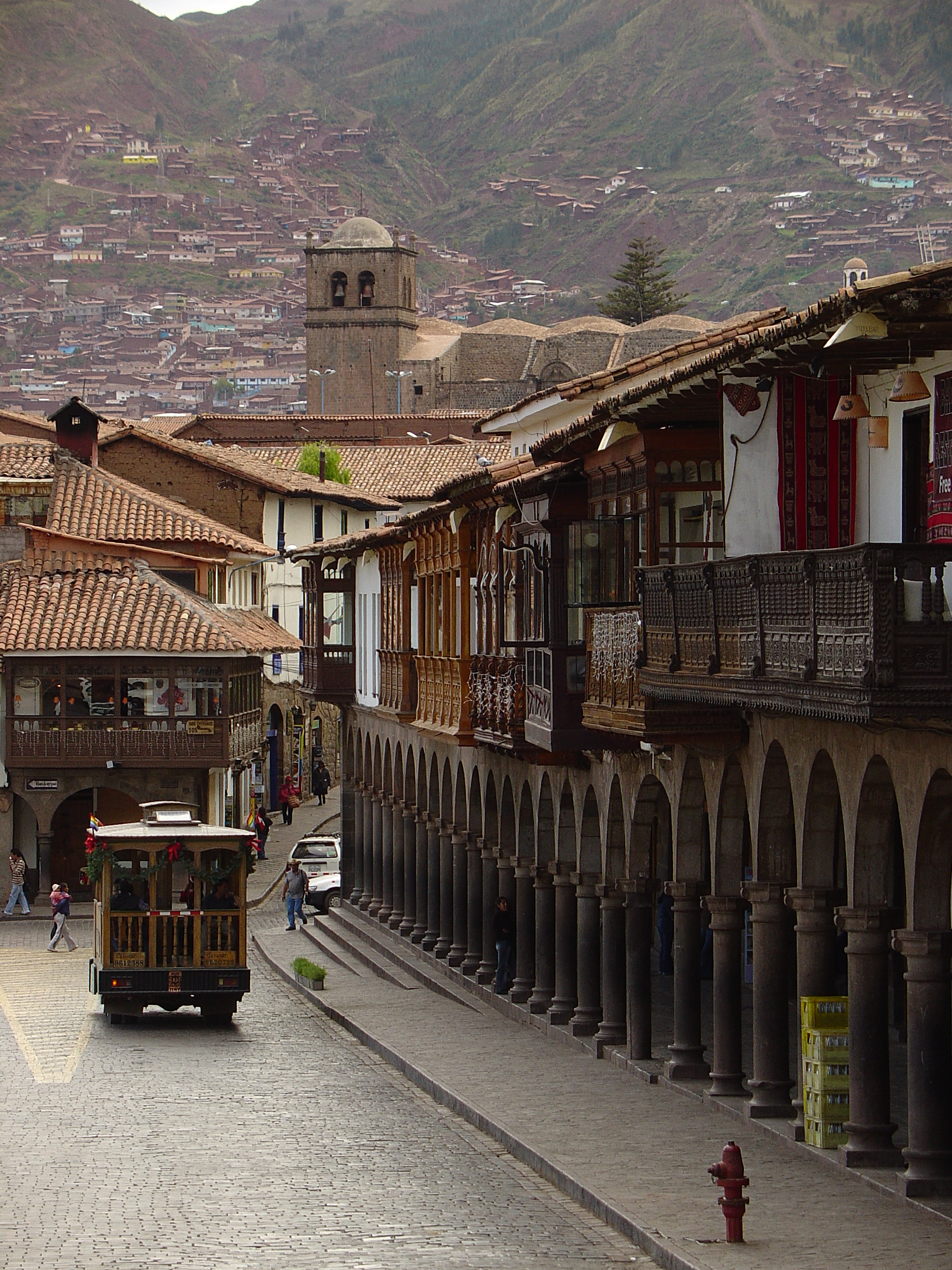 Spanish architecture on the Plaza de Armas in Cusco, Peru